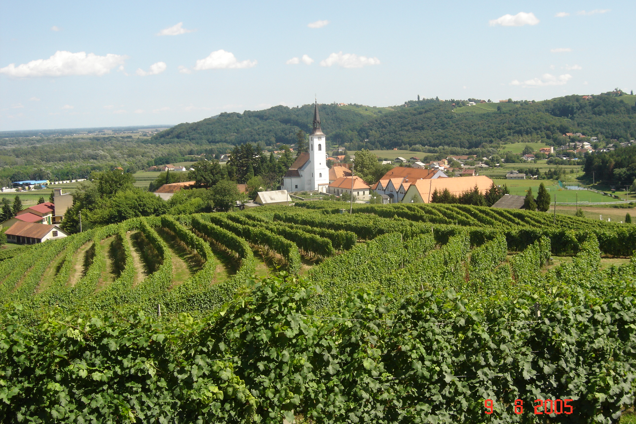 Picture of Zavrč in August 2005